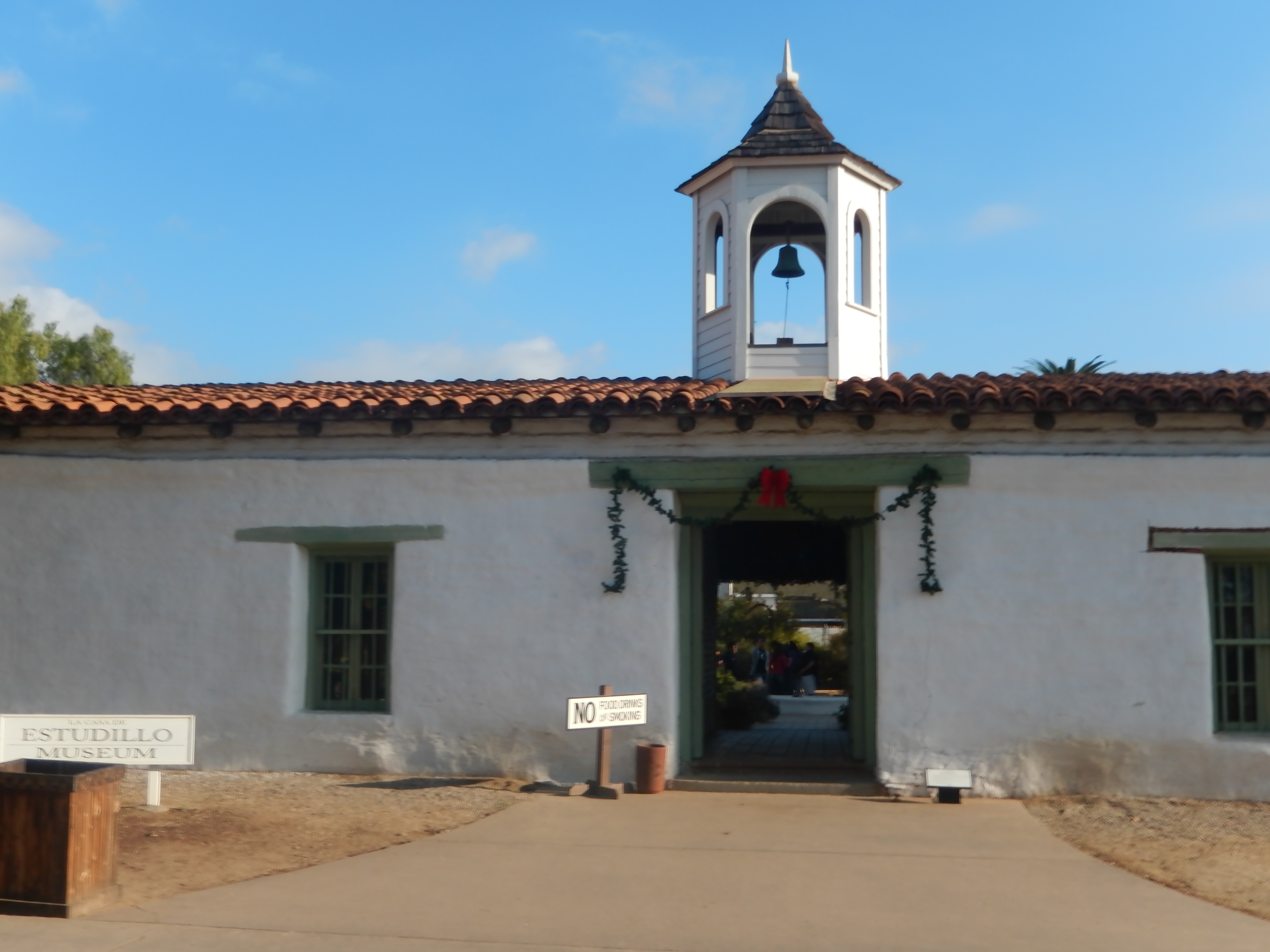 I took photo with Nikon camera of La Casa de Estudillo Museum at Old Town in San Diego, CA.